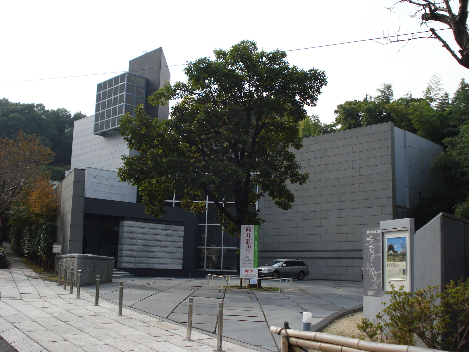 Kasama Nichido Museum of Art East Wing (Kasama-city, Ibaraki, Japan)